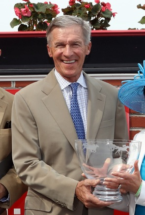 Horse trainer Michael Matz at Pimlico, 2016, receiving trophy for winning the Hilltop Stakes with Gone Away